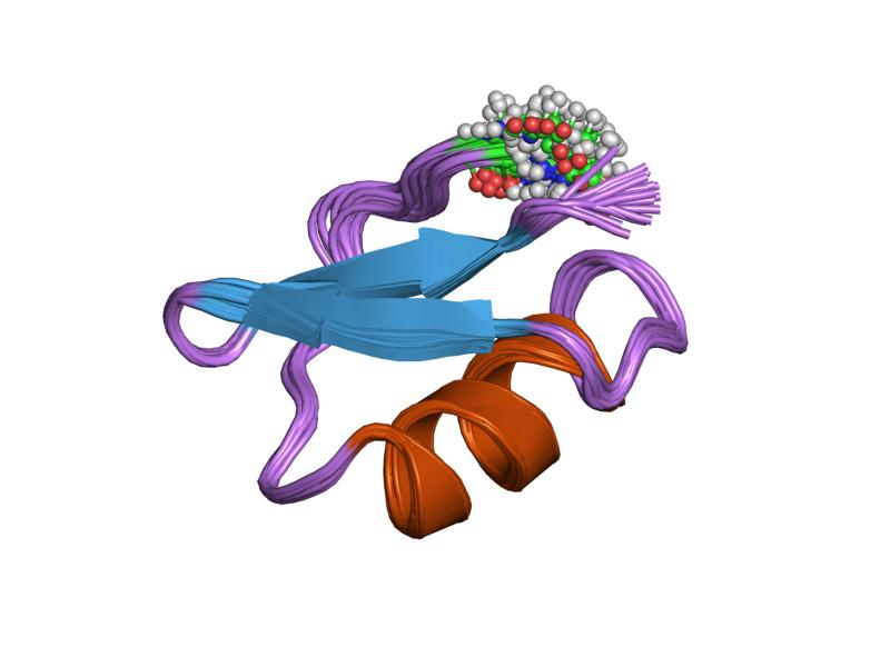 Cartoon representation of the molecular structure of protein registered with 1lir code.